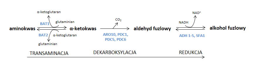 Biosynthesis of fusel alcohols in Saccharomyces cerevisiae (Ehrlich pathway)